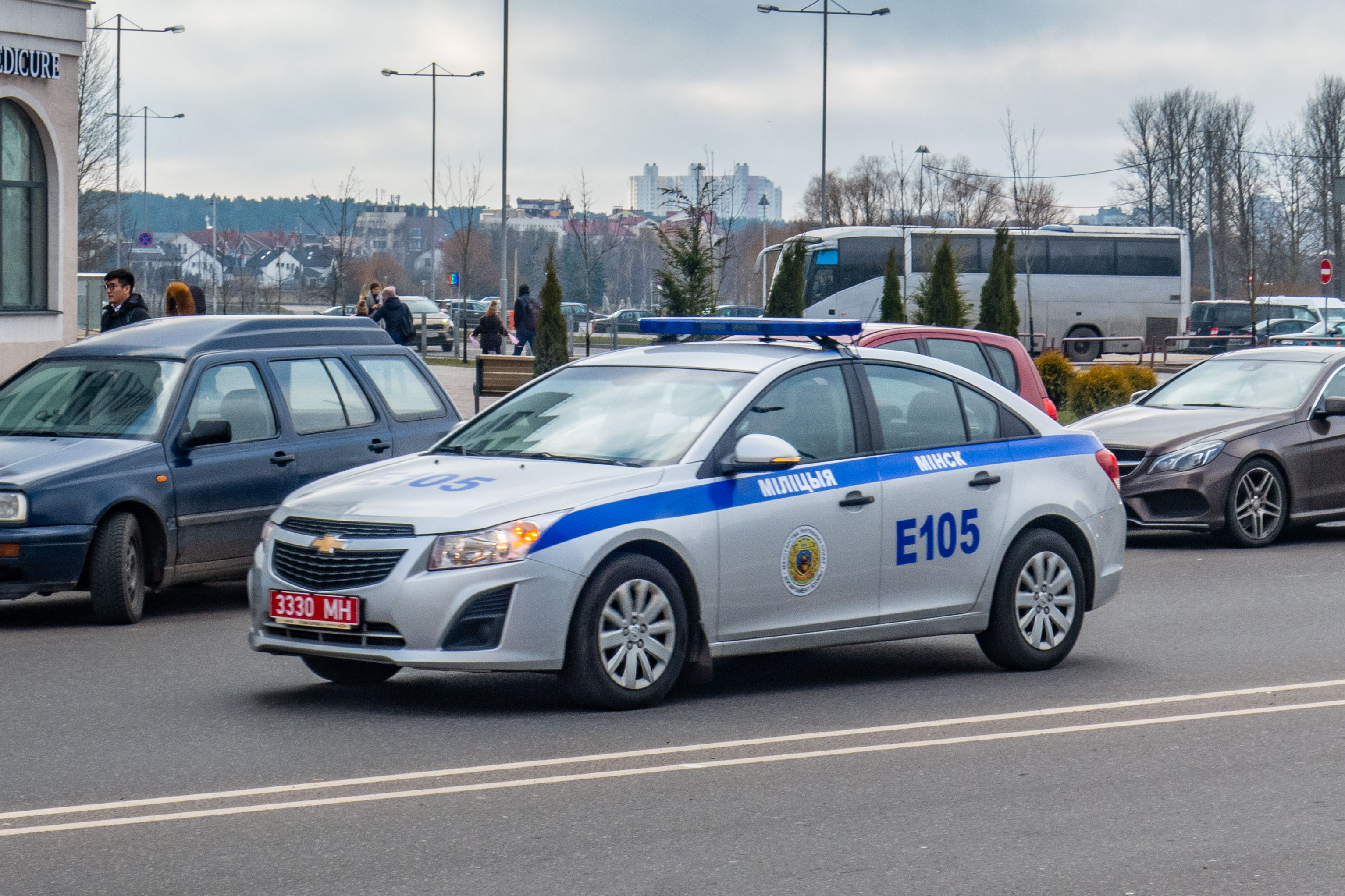 Chevrolet car of the Belarusian police. Minsk, Belarus